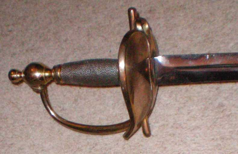 Digital image of Pattern 1796 Heavy Cavalry Officer Dress Sword